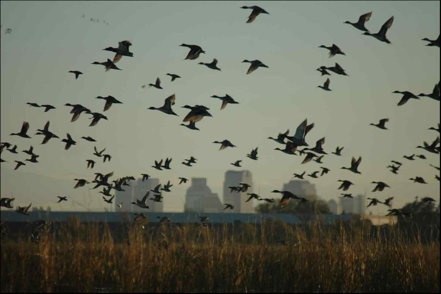 Mallards (Anas platyrhynchos) in flight. At the Yolo Bypass Wildlife Area (Sacramento River flood control bypass), in the northern Sacramento–San Joaquin River Delta. Located in the Sacramento Valley, Yolo County, northern California.